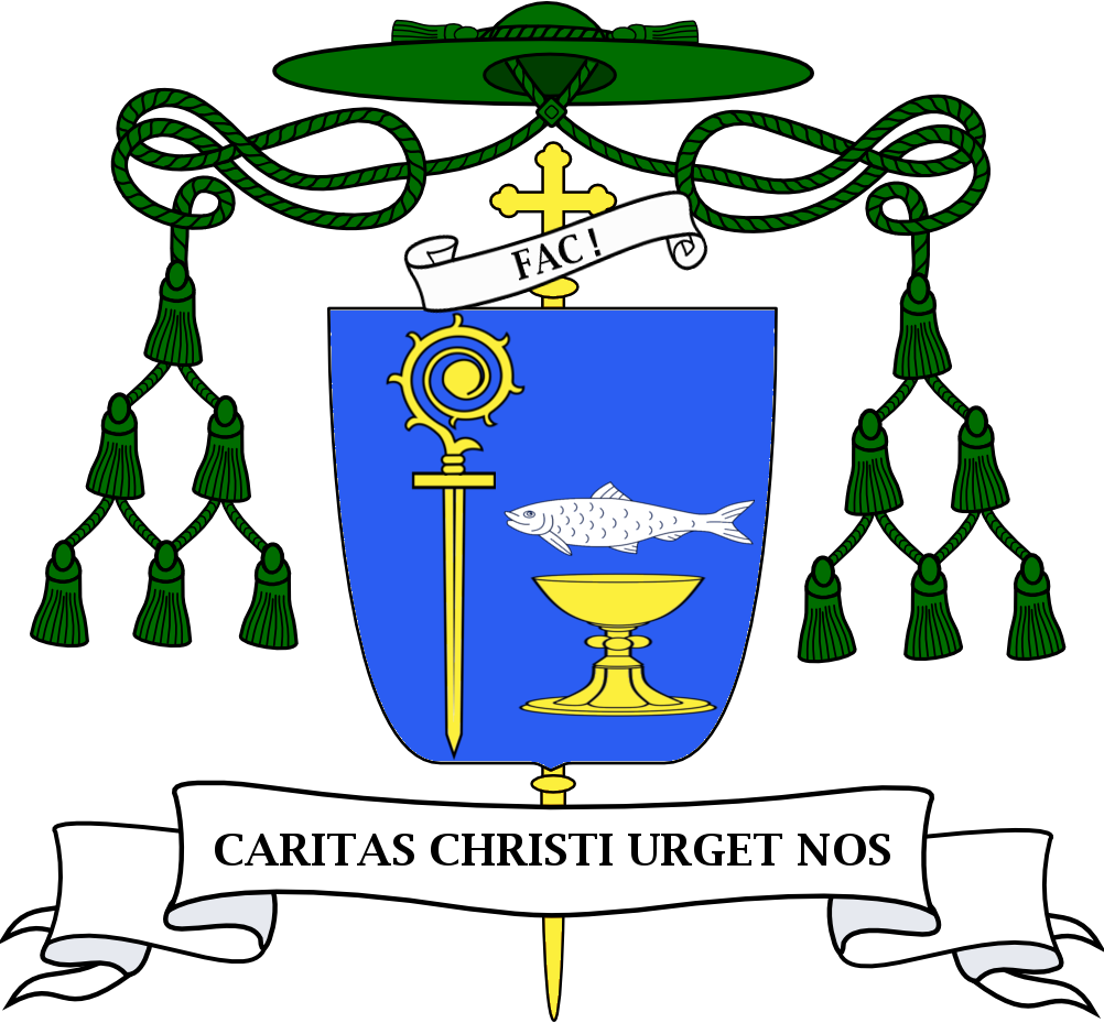 coat of arms of Bishop Patrick Le Gal